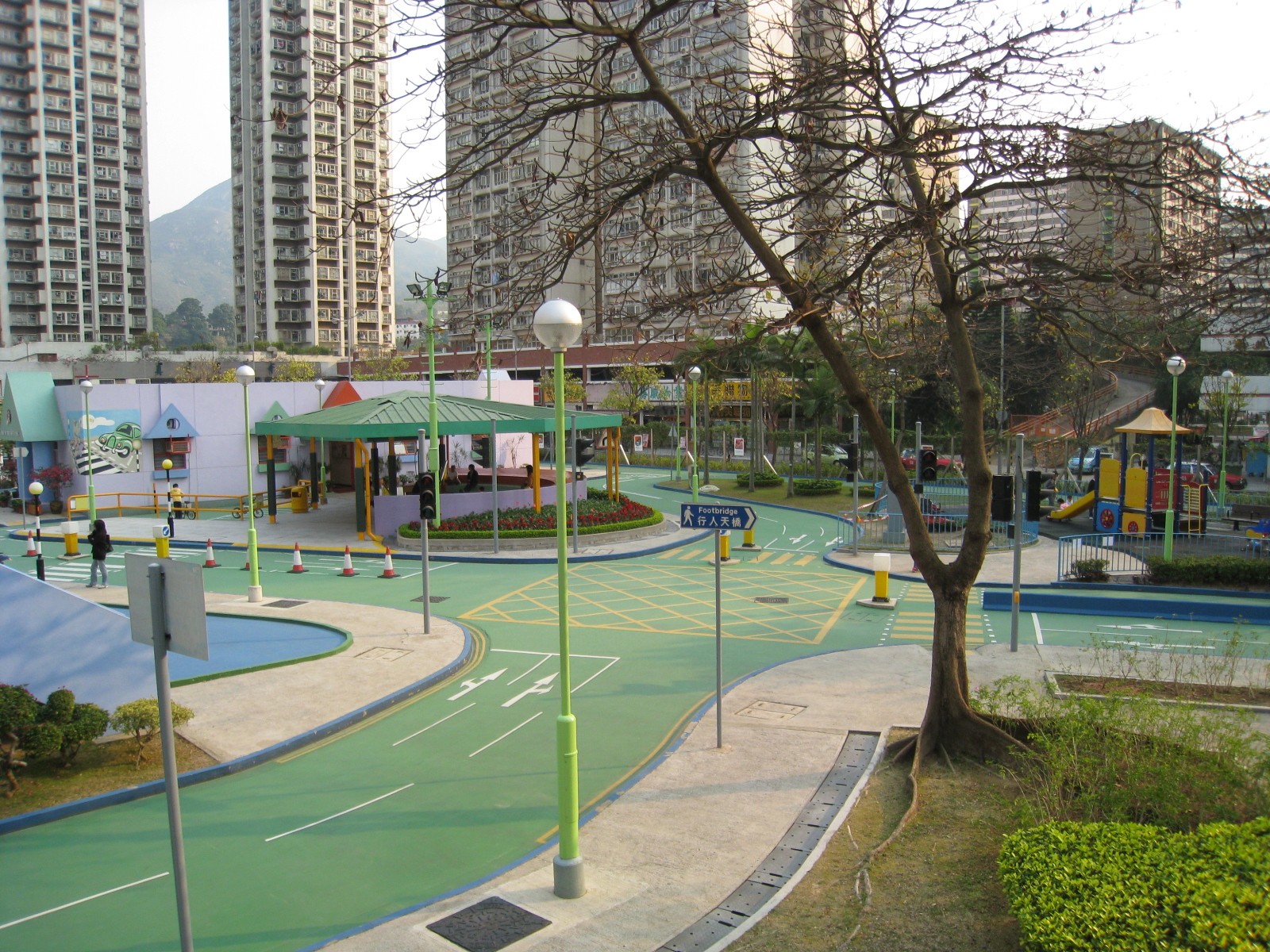 Shatin Road Safety Park